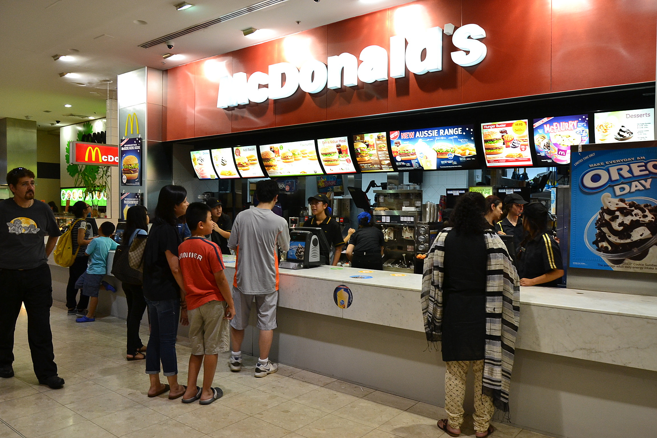 Burwood McDonalds, Sydney